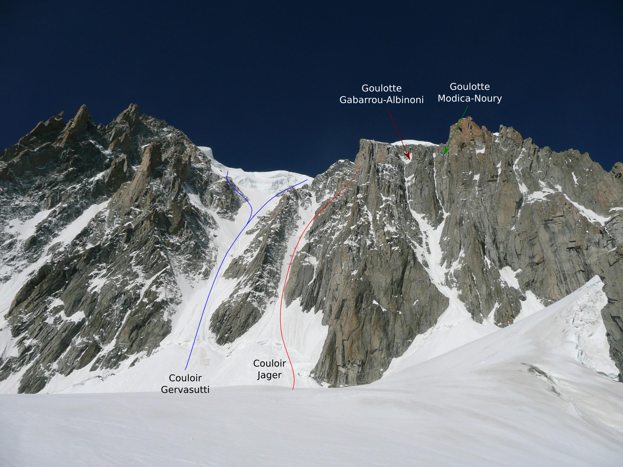 Mont Blanc du Tacul - Couloir Gervasutti